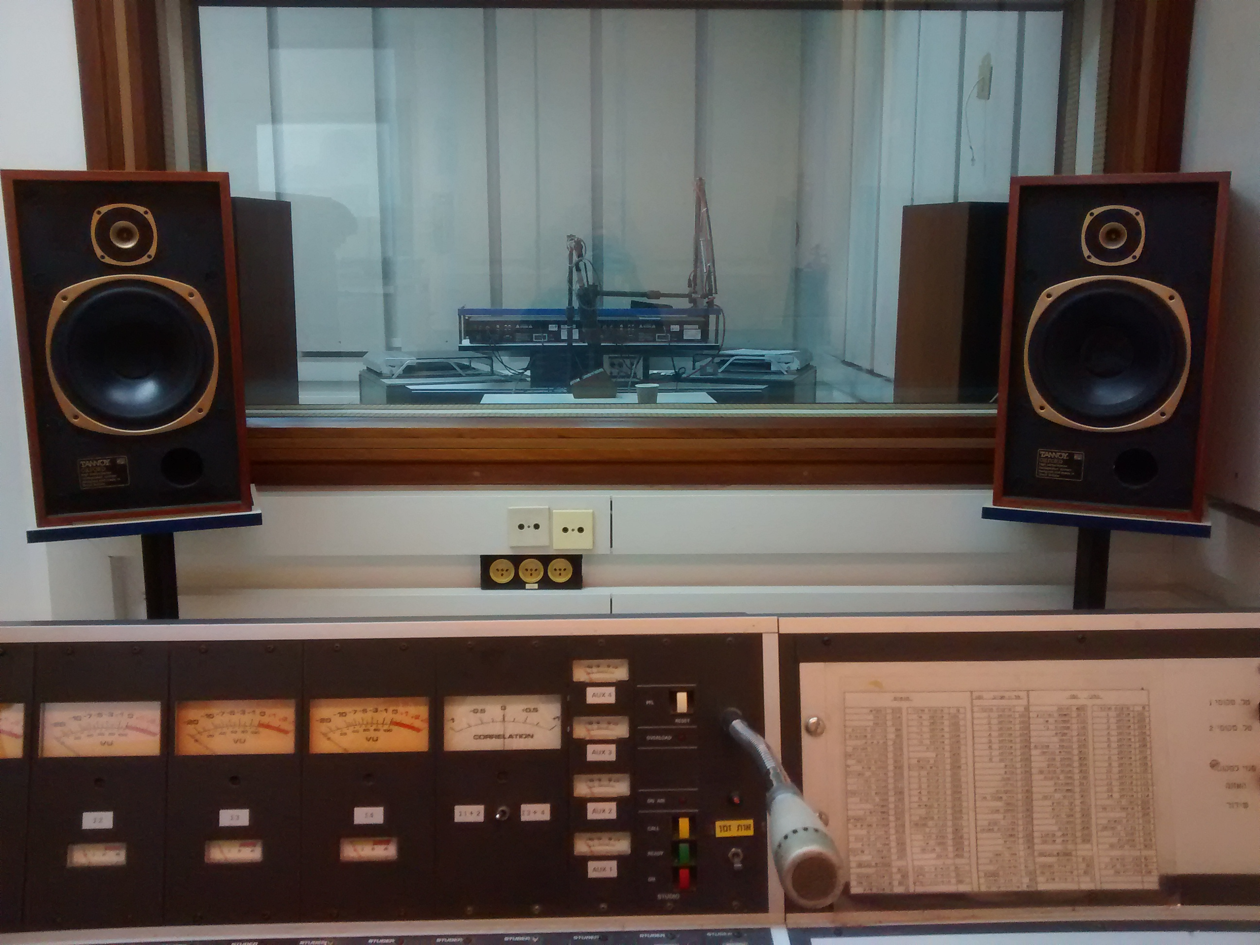 Studios and facilities of Kol Israel in Romema, Jerusalem 2016